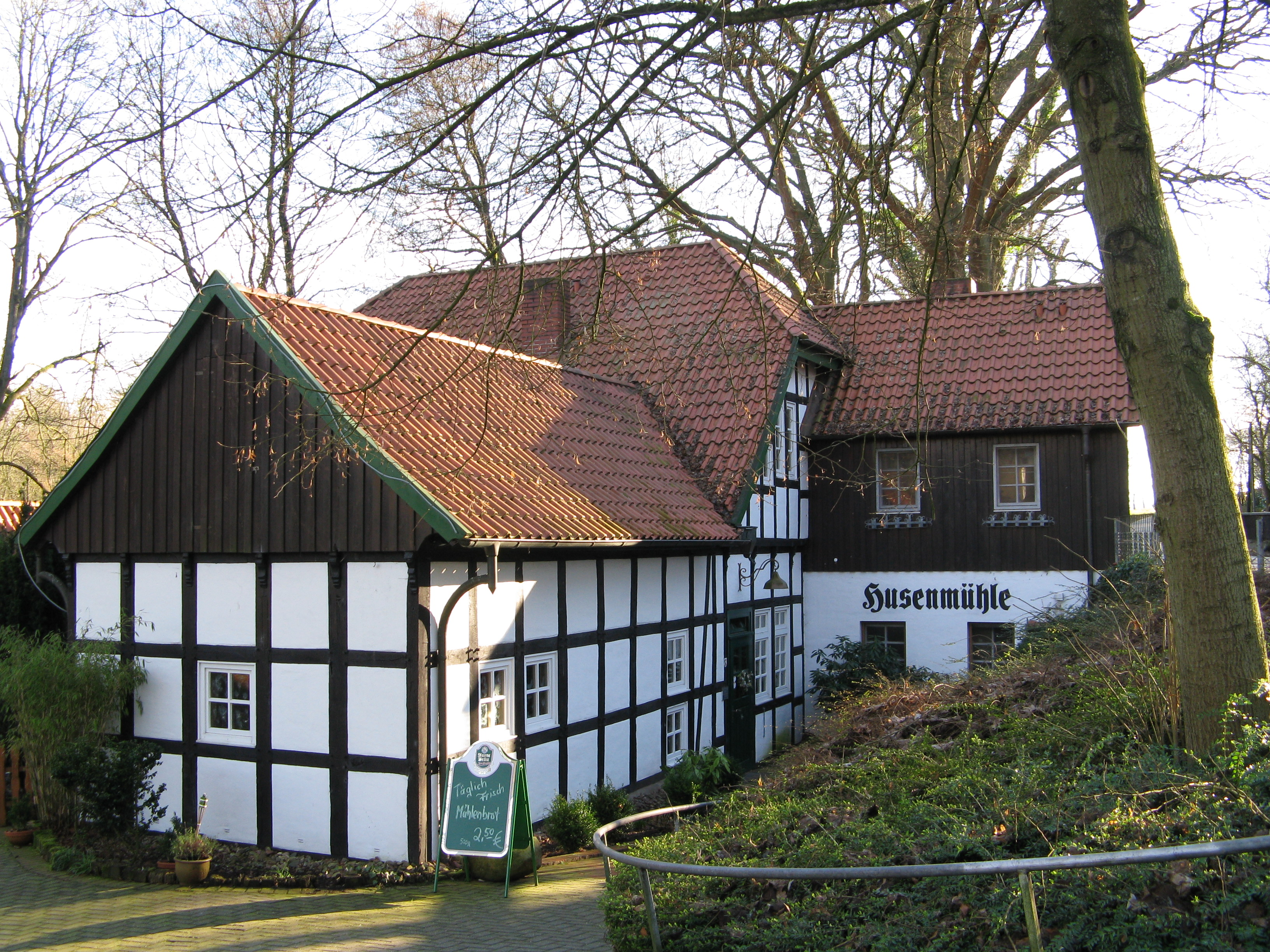 Watermill in Hüllhorst, Minden-Lübbecke, North Rhine-Westphalia, Germany.